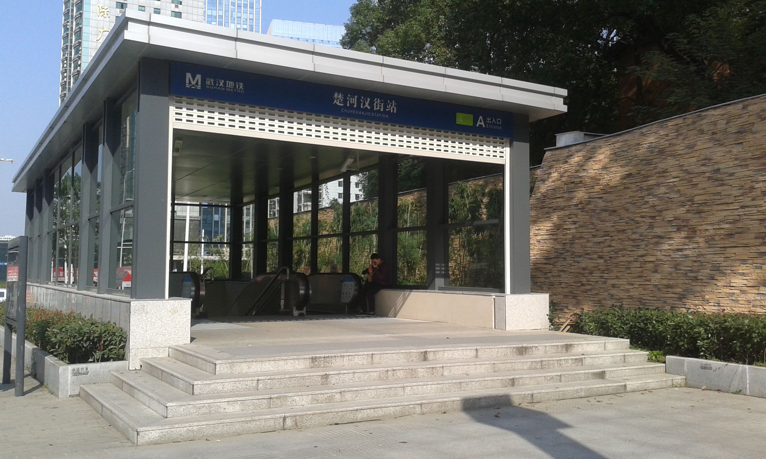 Entrance A of ChuheHanjie Station, Wuhan Metro